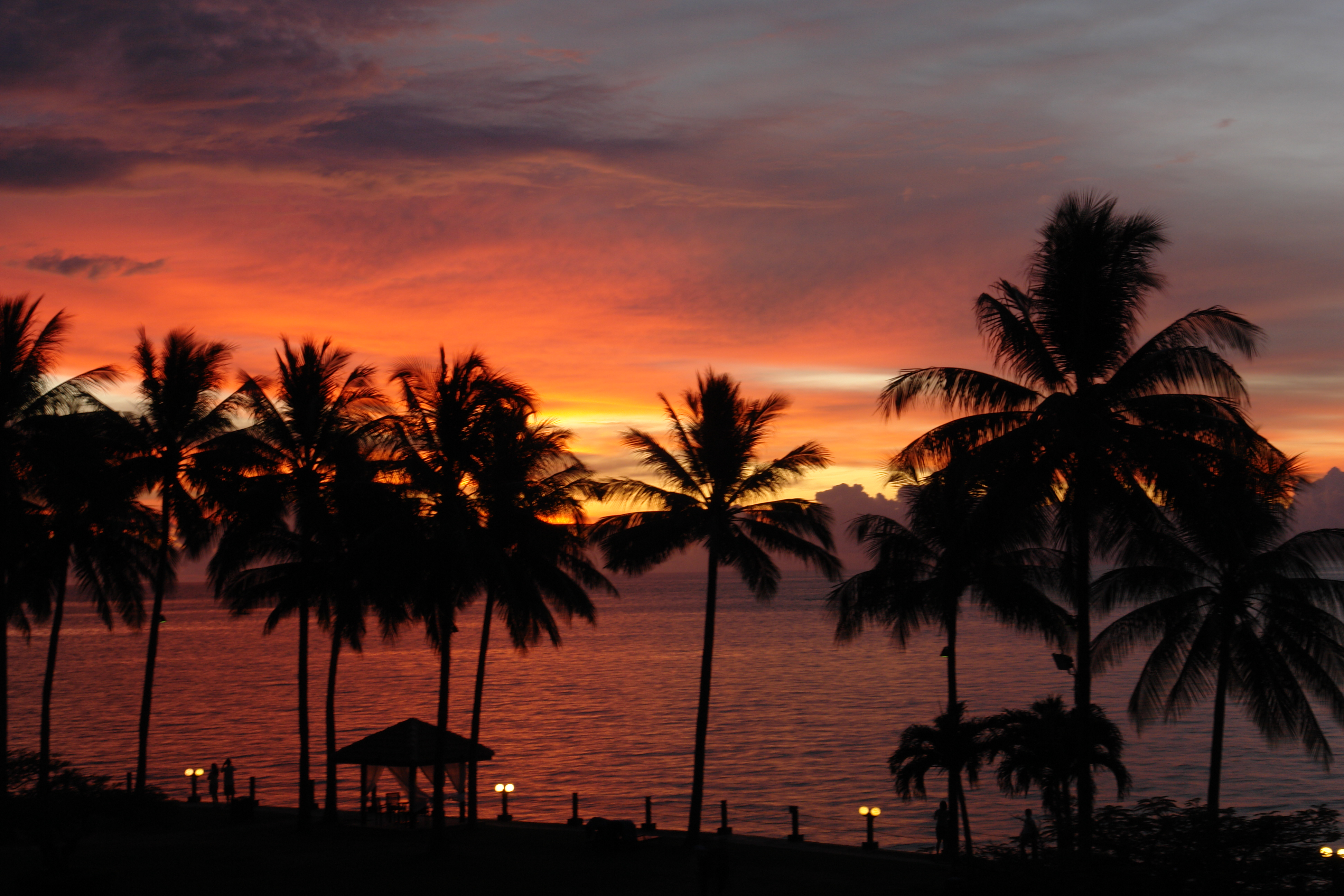 Sunset over the ocean in KK